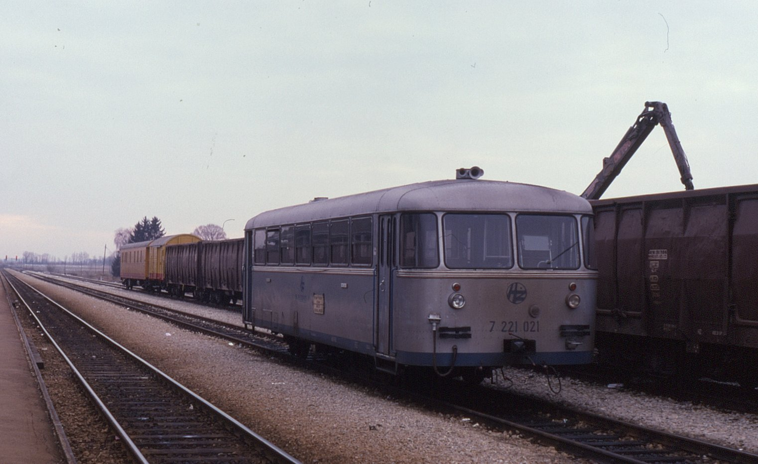 HŽ 7221 at Kloštar Vojakovački train station.